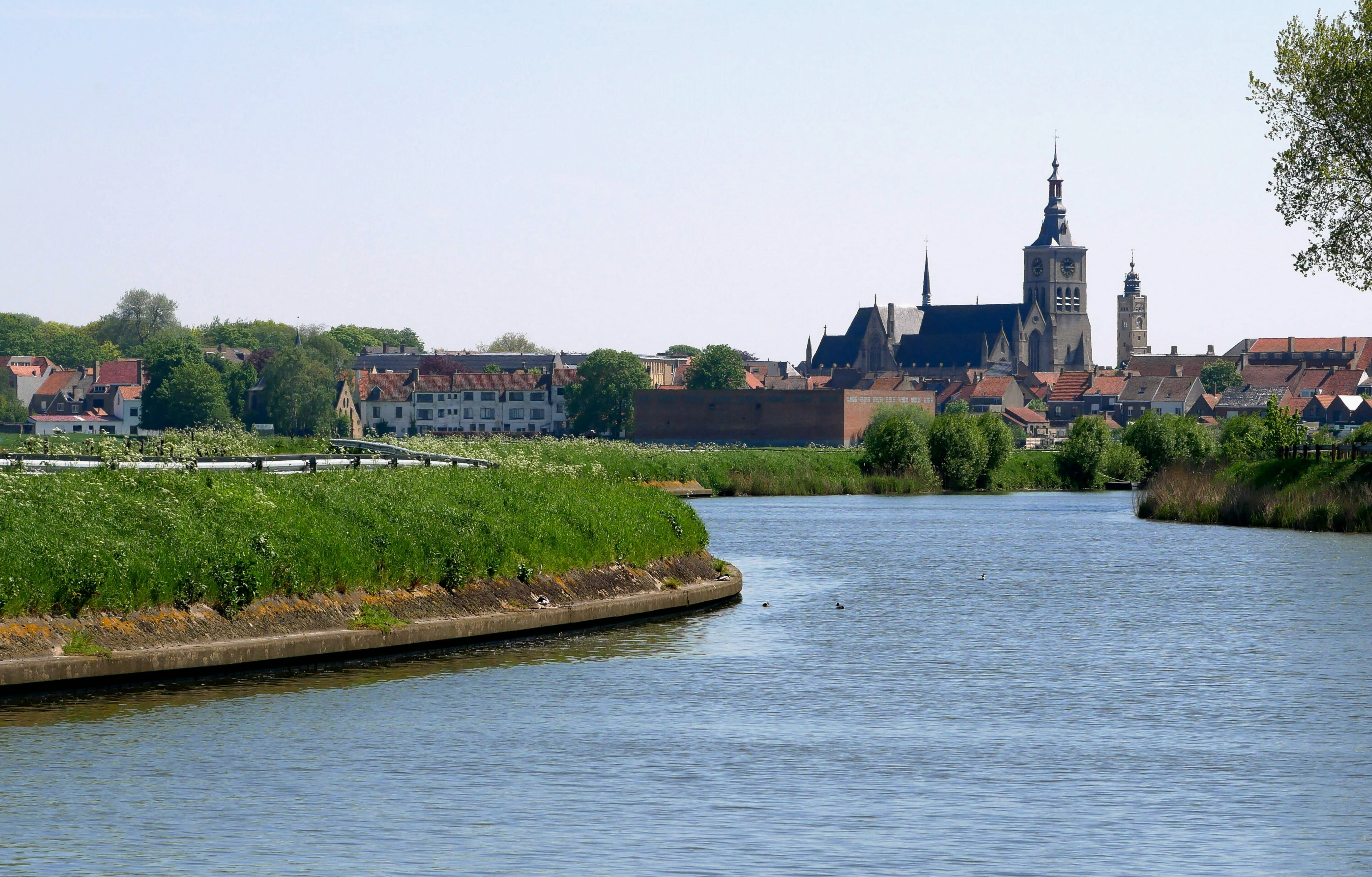 View on Diksmuide and the river Yser